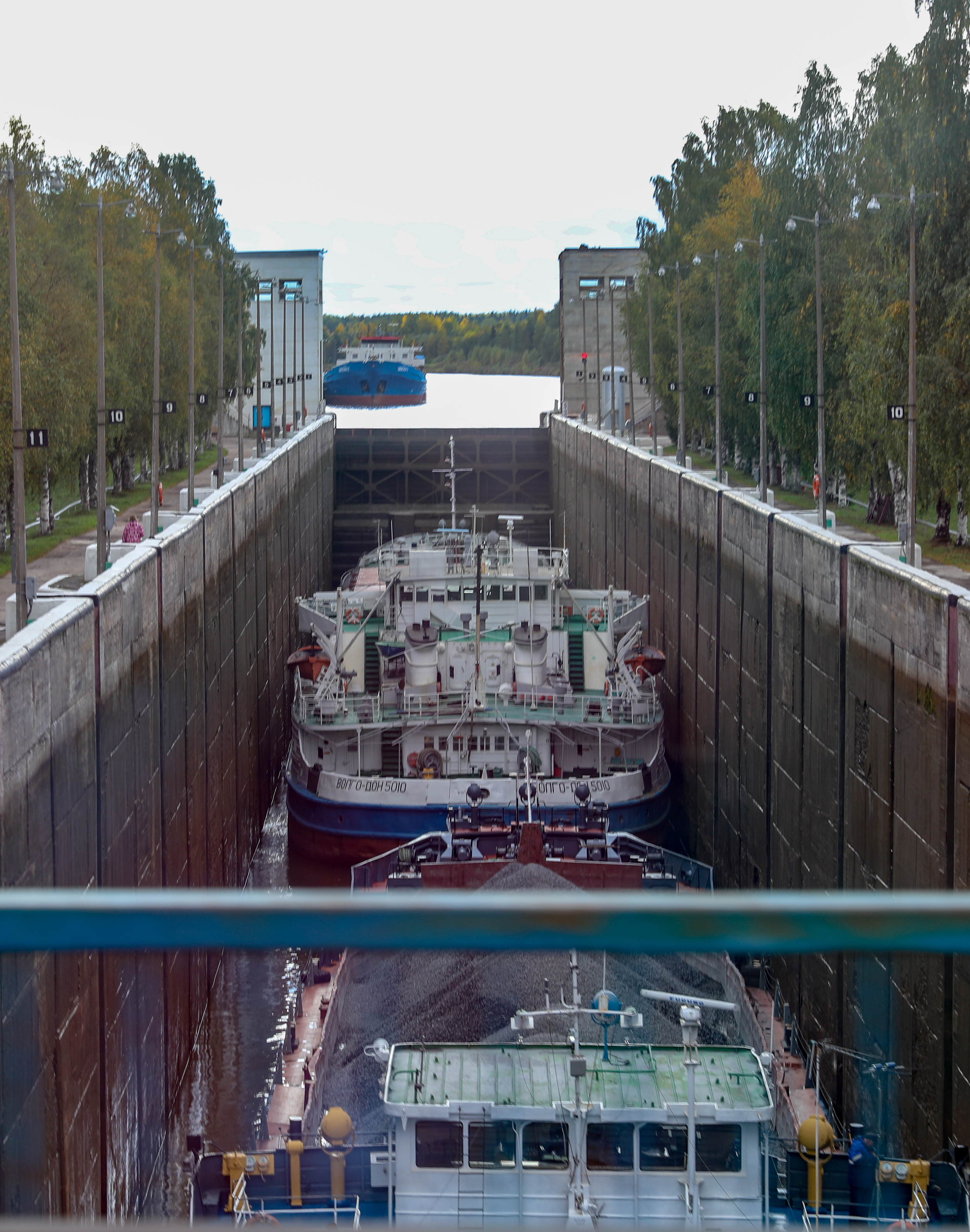 Volga - Baltic canal in Vytegra, Vologda oblast, Russia